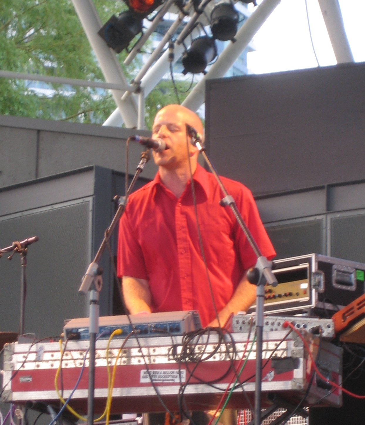 Picture of elctronica band The Juan Maclean performing a free concert at the Harbourfront Centre in Toronto, Canada.